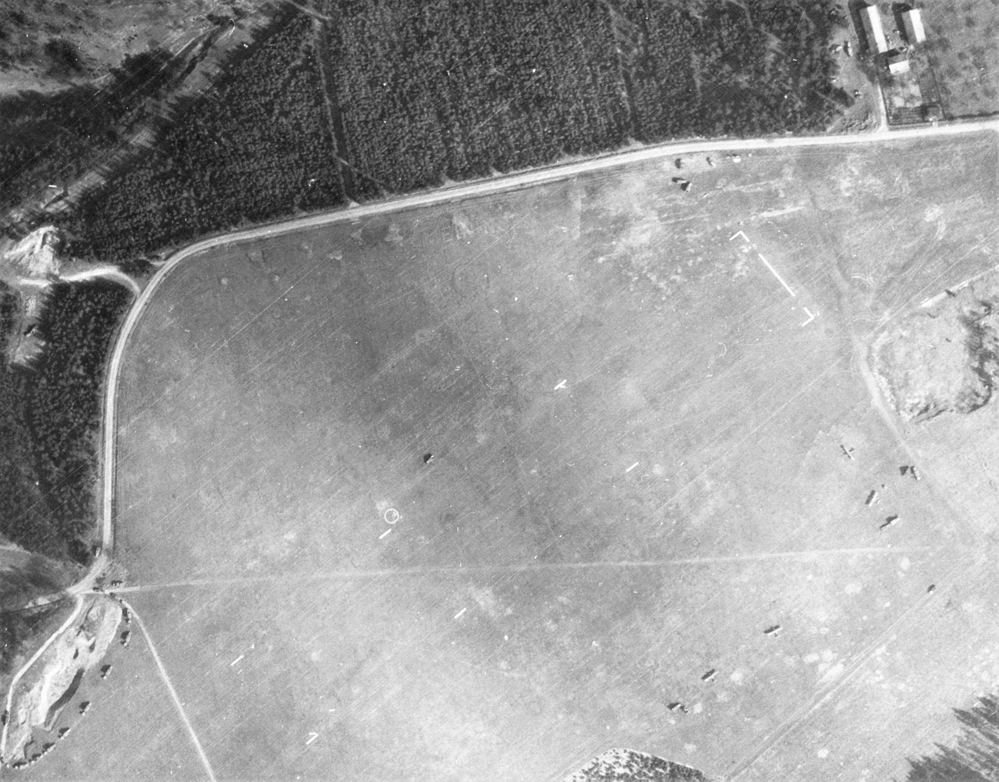 Airfield in City Meiningen in the jear 1945.